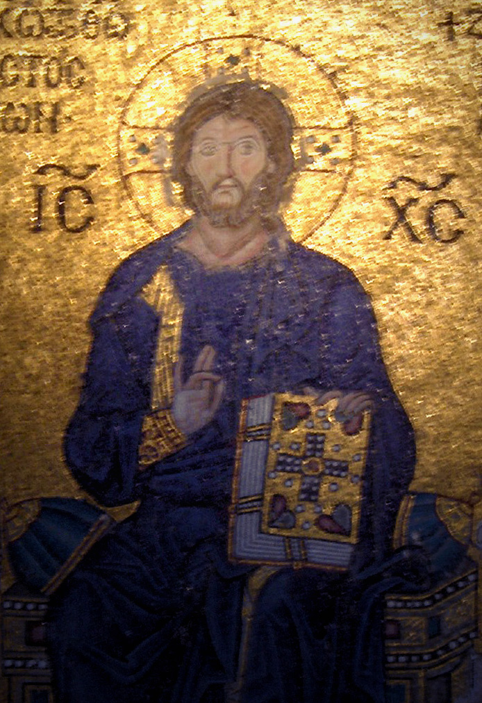 Hagia Sophia ; Empress Zoë mosaic : Christ Pantocrator; Istanbul, Turkey